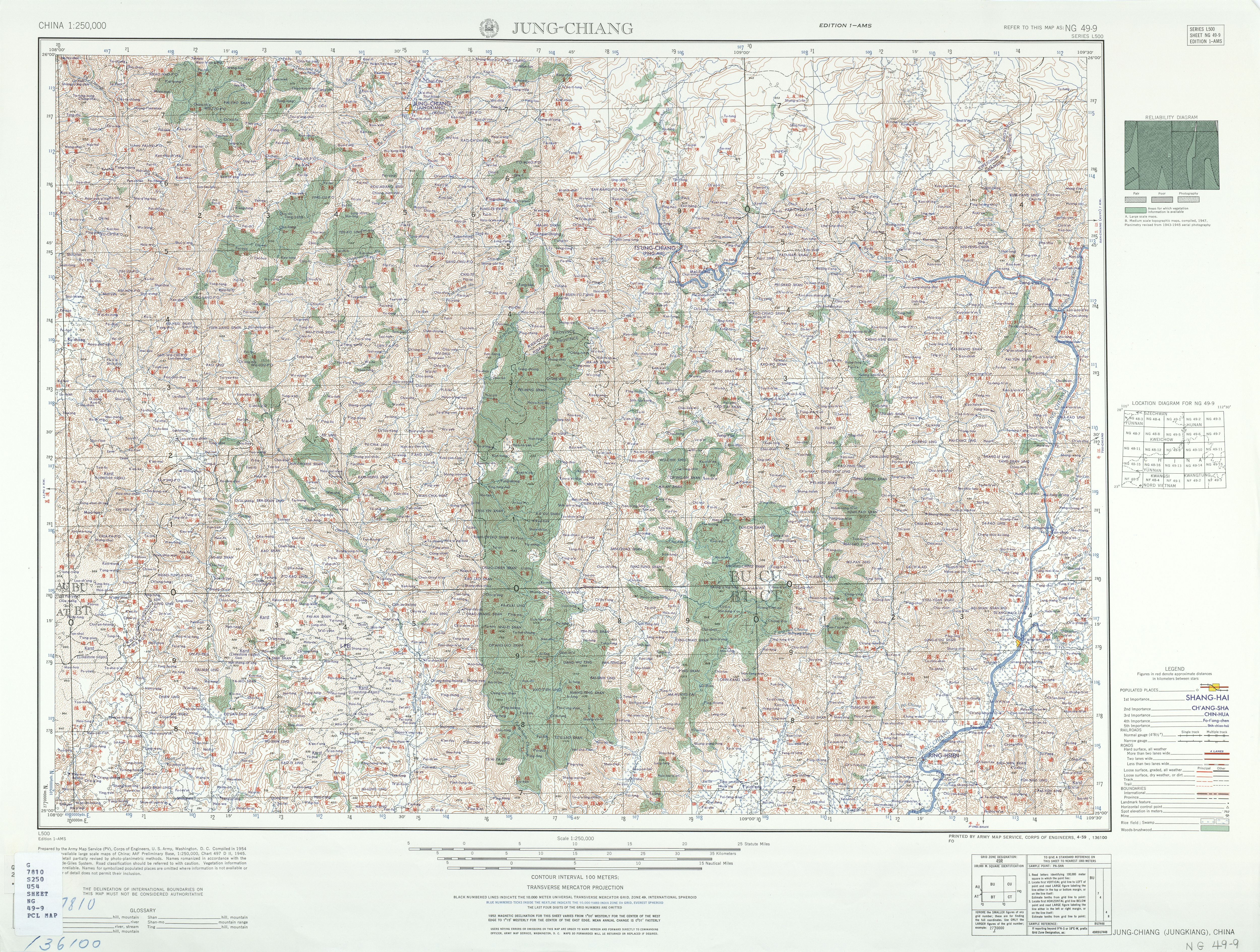 China AMS Topographic Maps